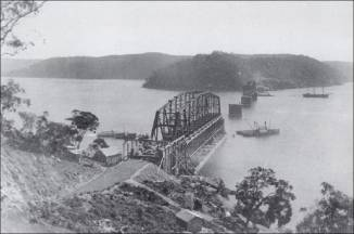 The first Hawkesbury River Railway Bridge under construction in 1888.